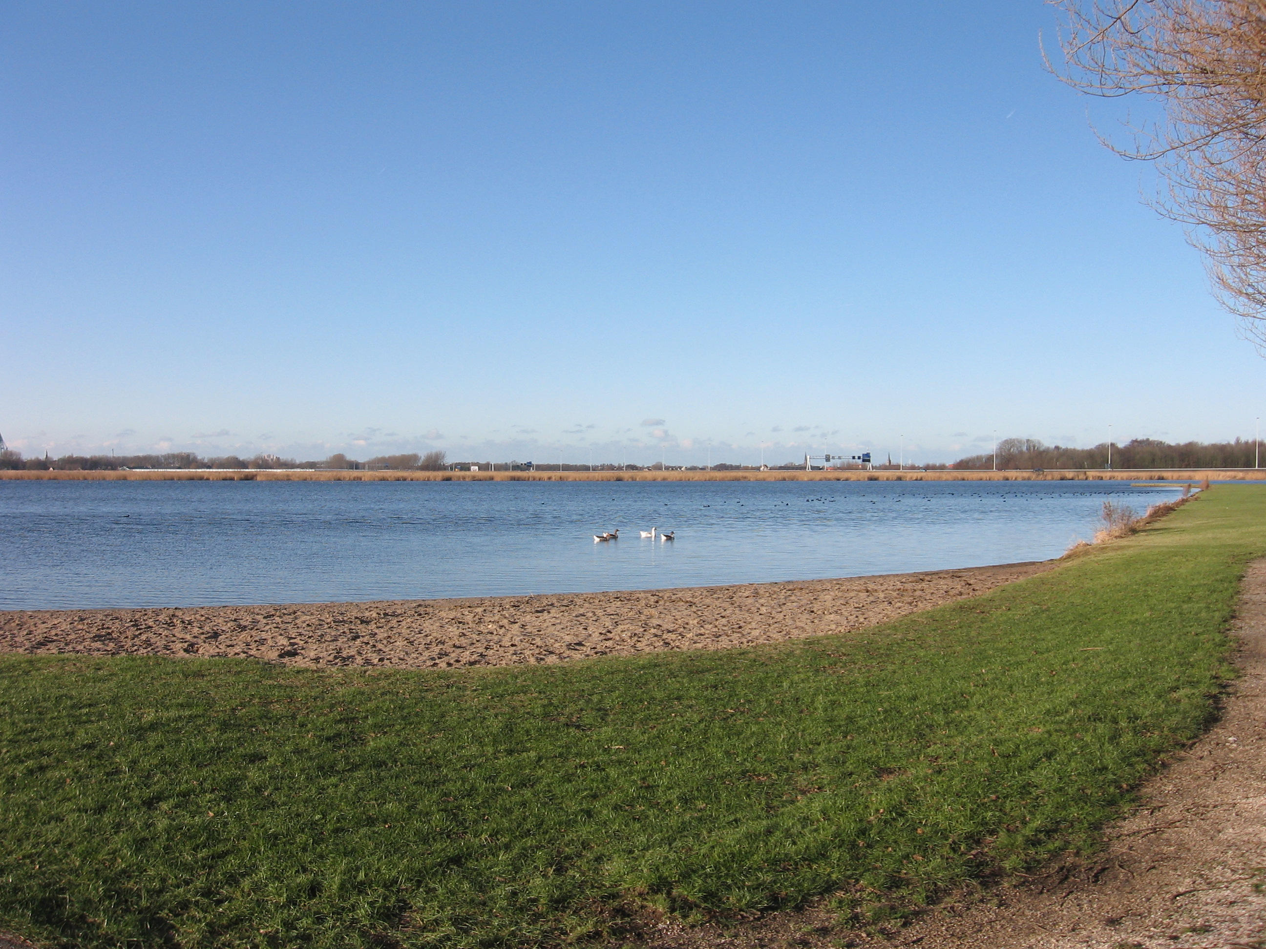 Krabbeplas